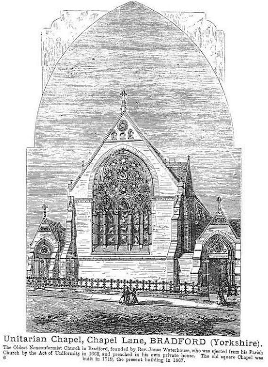 Woodblock illustration of former Unitarian Chapel, Chapel Lane, Bradford, West Yorkshire, England. It was designed by Andrews Son & Pepper, and opened in 1869. The stone carving was executed by Mawer & Ingle. The building was demolished in 1969 and replaced by an inner city development.